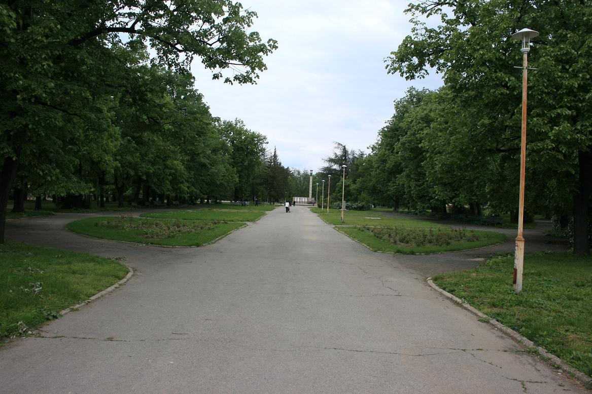 Park "Rozarium", Kazanlak